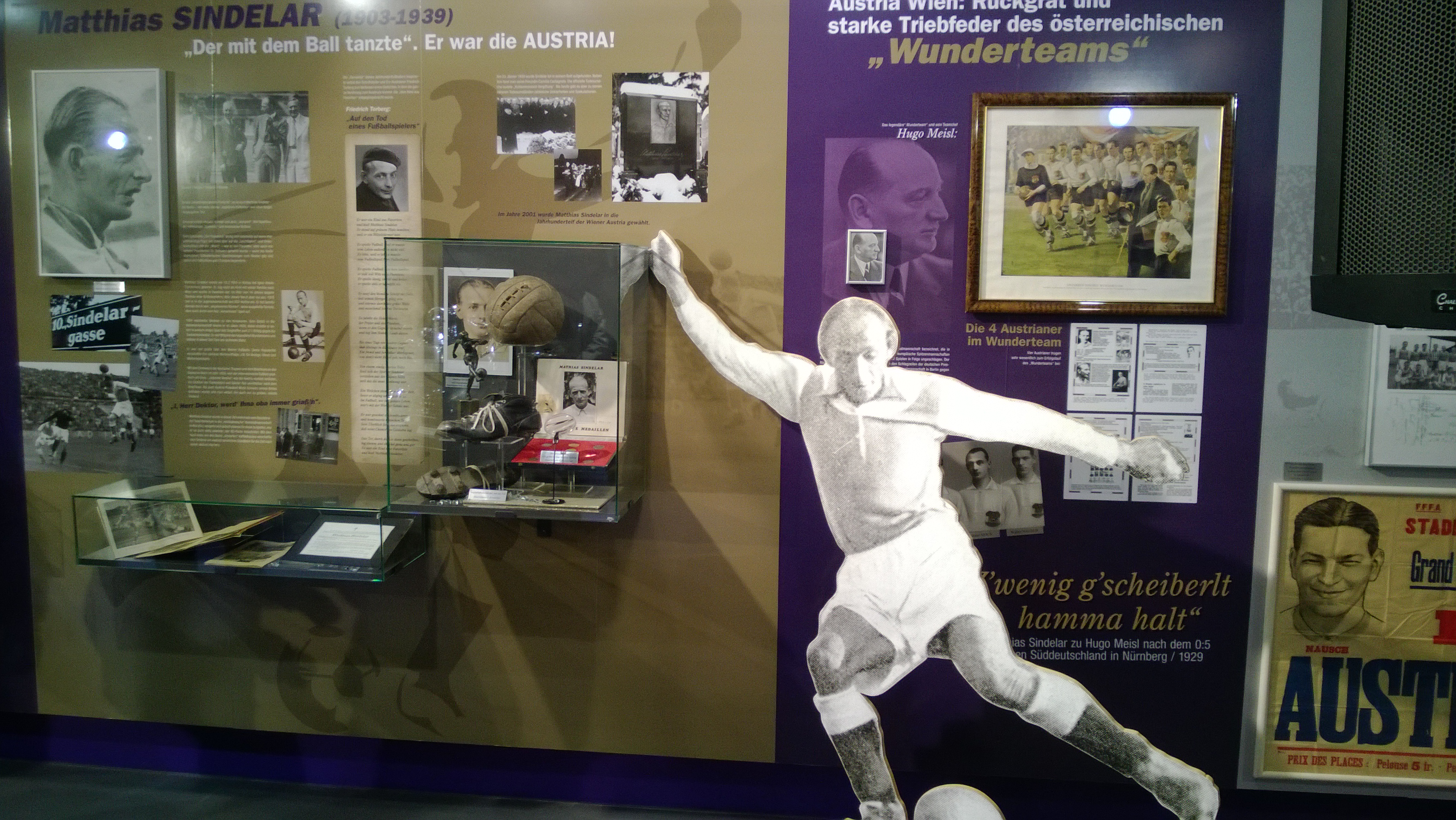 Generali Arena Museum